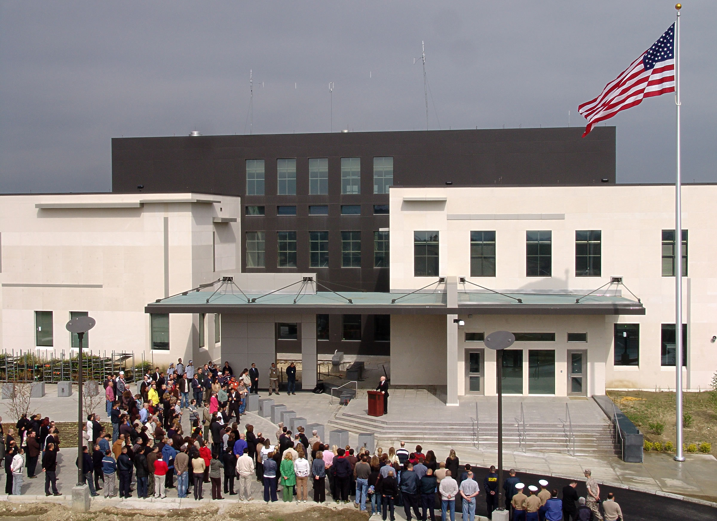 On April 27, the United States Embassy moved from the location on Ilinden Boulevard to the new facility built on Skopje’s “Gradiste.”